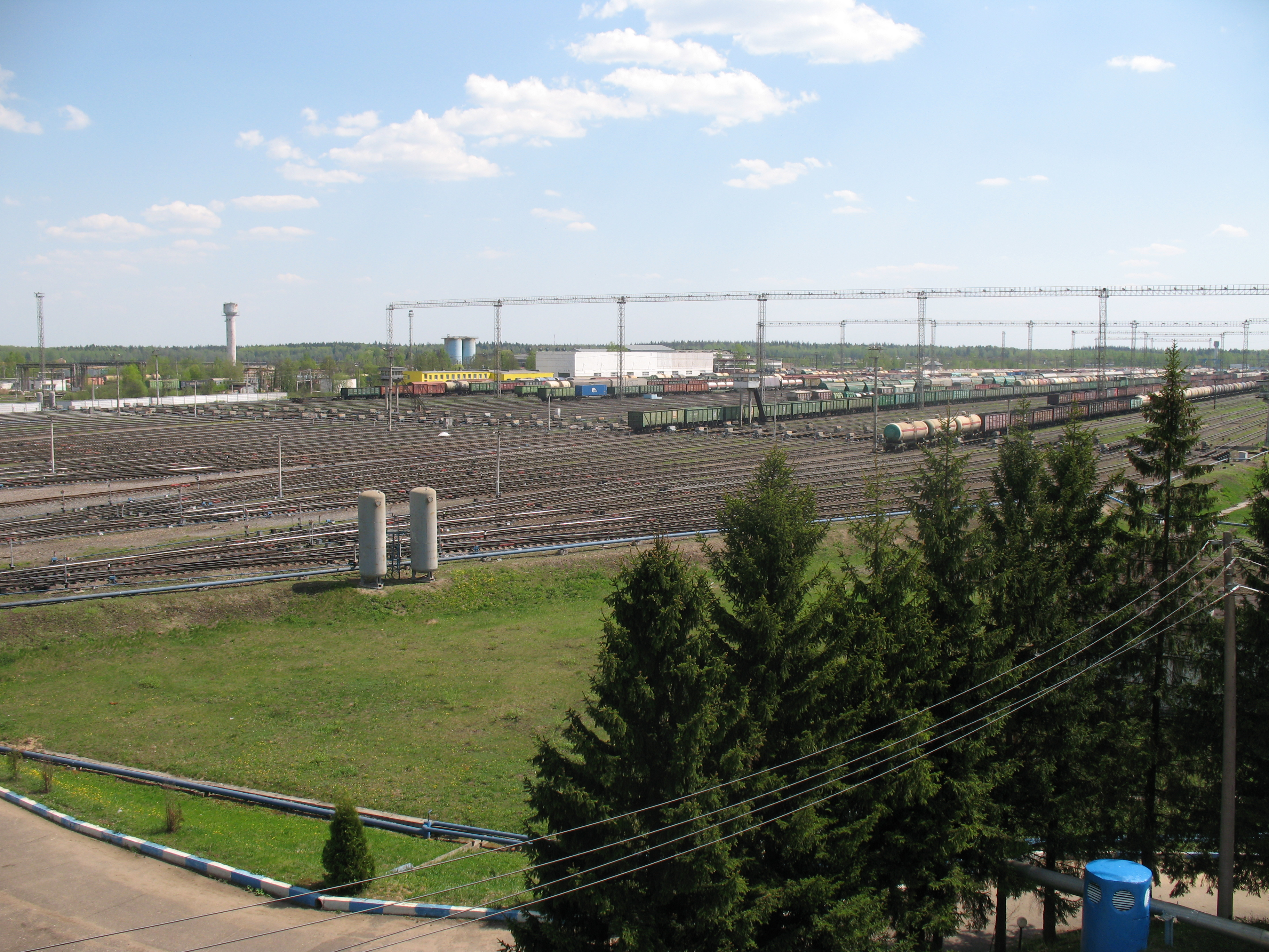 Bekasovo-Sortirovochnoe classification yard. End of hump and beginning of sorting park C, third brake position.